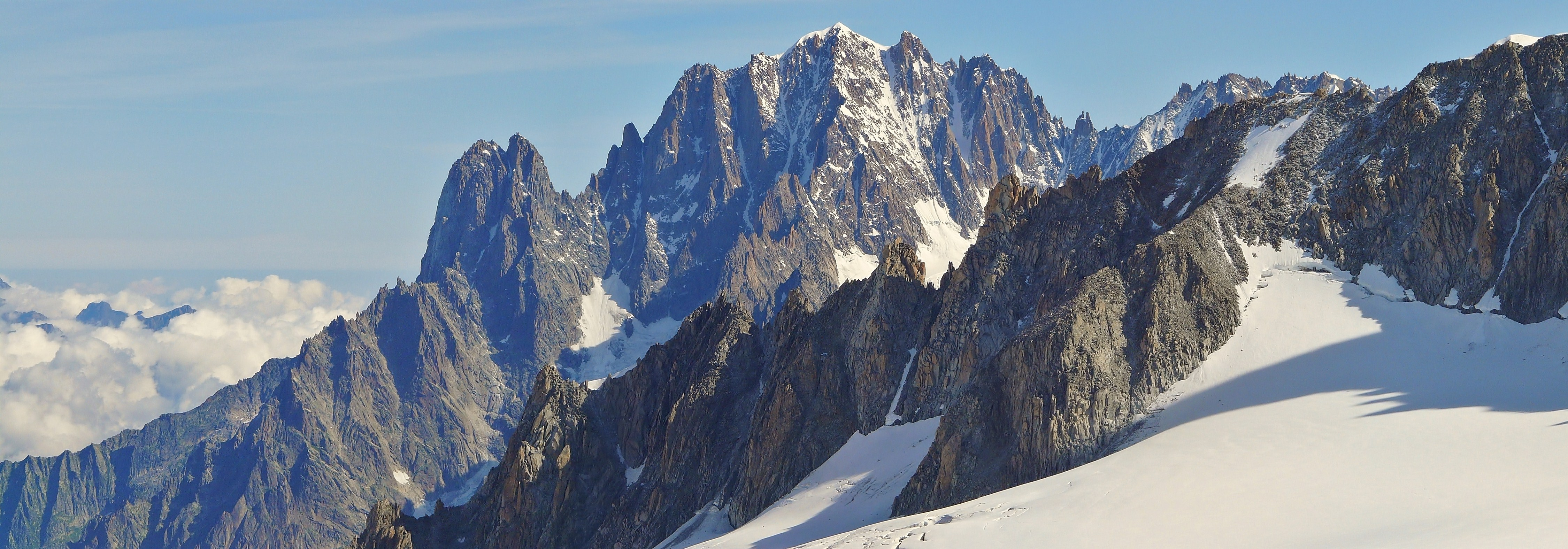 Aiguille Verte (4,122 m) in the center and Aiguille du Dru (3,754 m) on the left as seen from Punta Helbronner (3,462 m) in 2009 July.